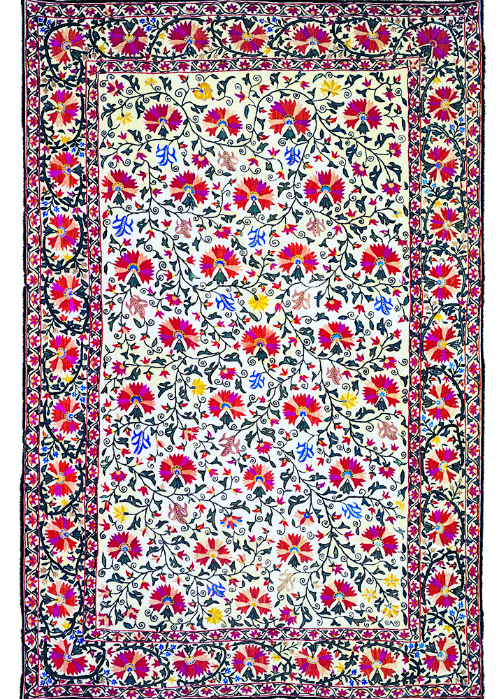 Suzani, Bukhara, Uzbekistan, first half 19th century. Silk embroidery on a cotton foundation, 1.52 x 2.29 m (5′ 0″ x 7′ 6″)